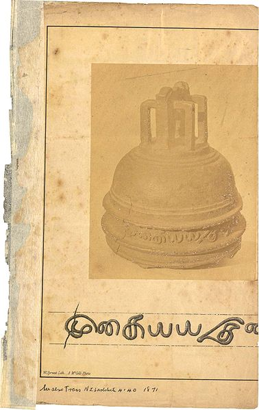 Facsimile of inscription on Tamil bell